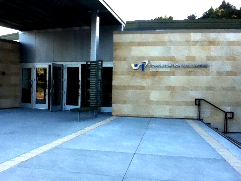 The front of Kol Shofar in Tiburon, California.